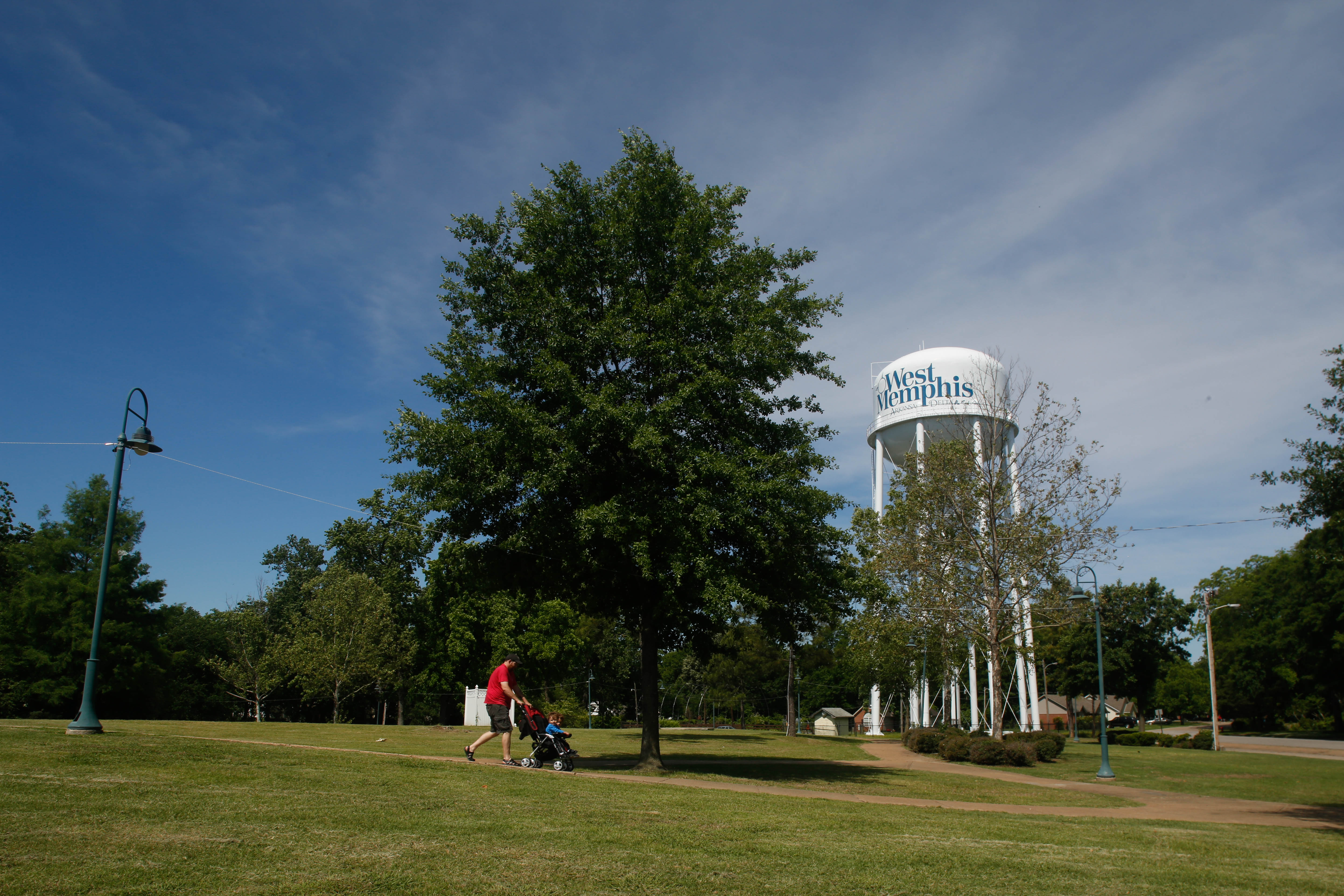 Worthington Park in West Memphis, Arkansas